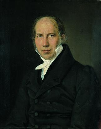 Portrait of N.F.S. Grundtvig by Christian Albrecht Jensen. He painted him again in 1843